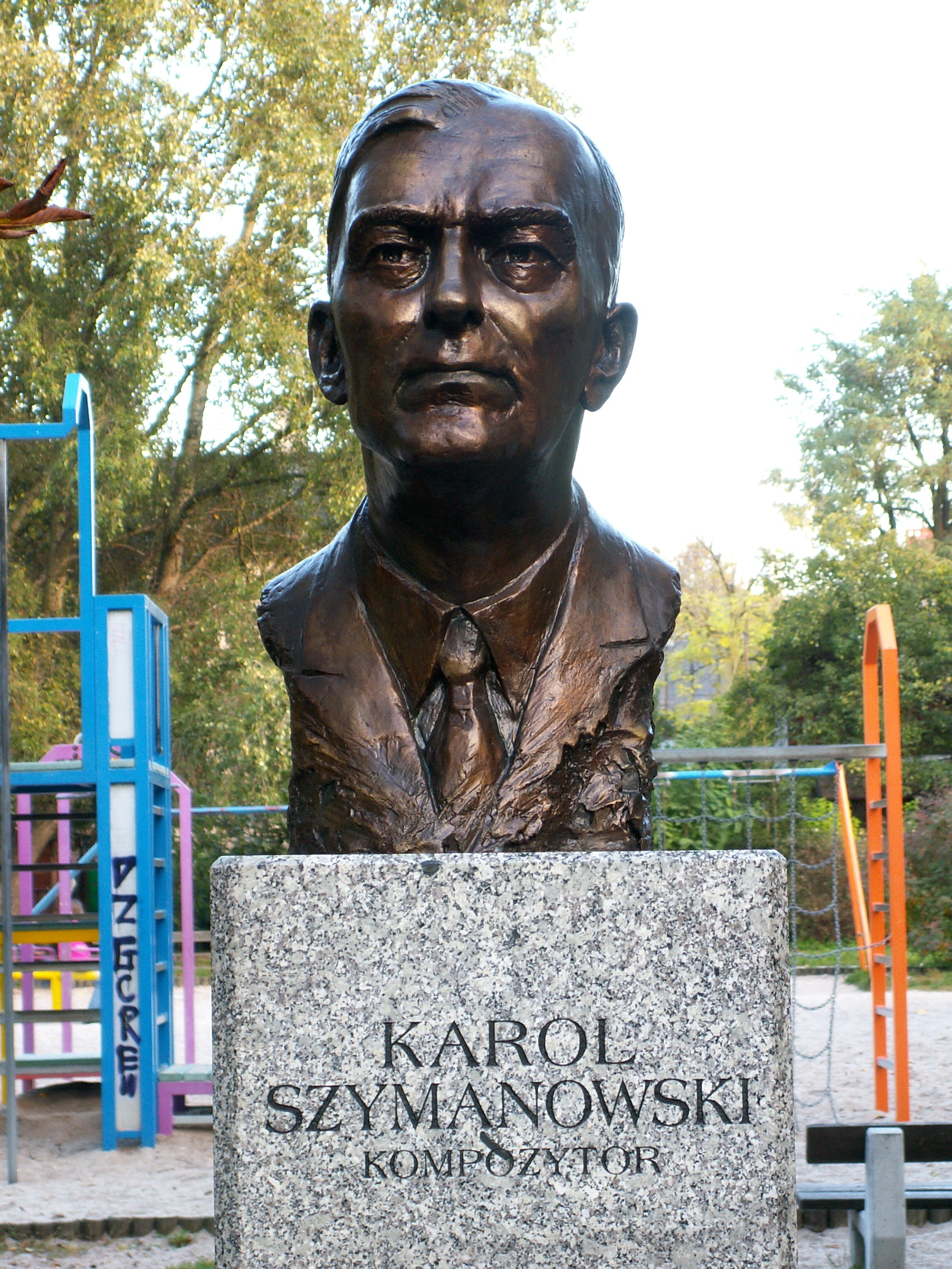 Bust of Karol Szymanowski in Celebrity Alley in Kielce (Poland)